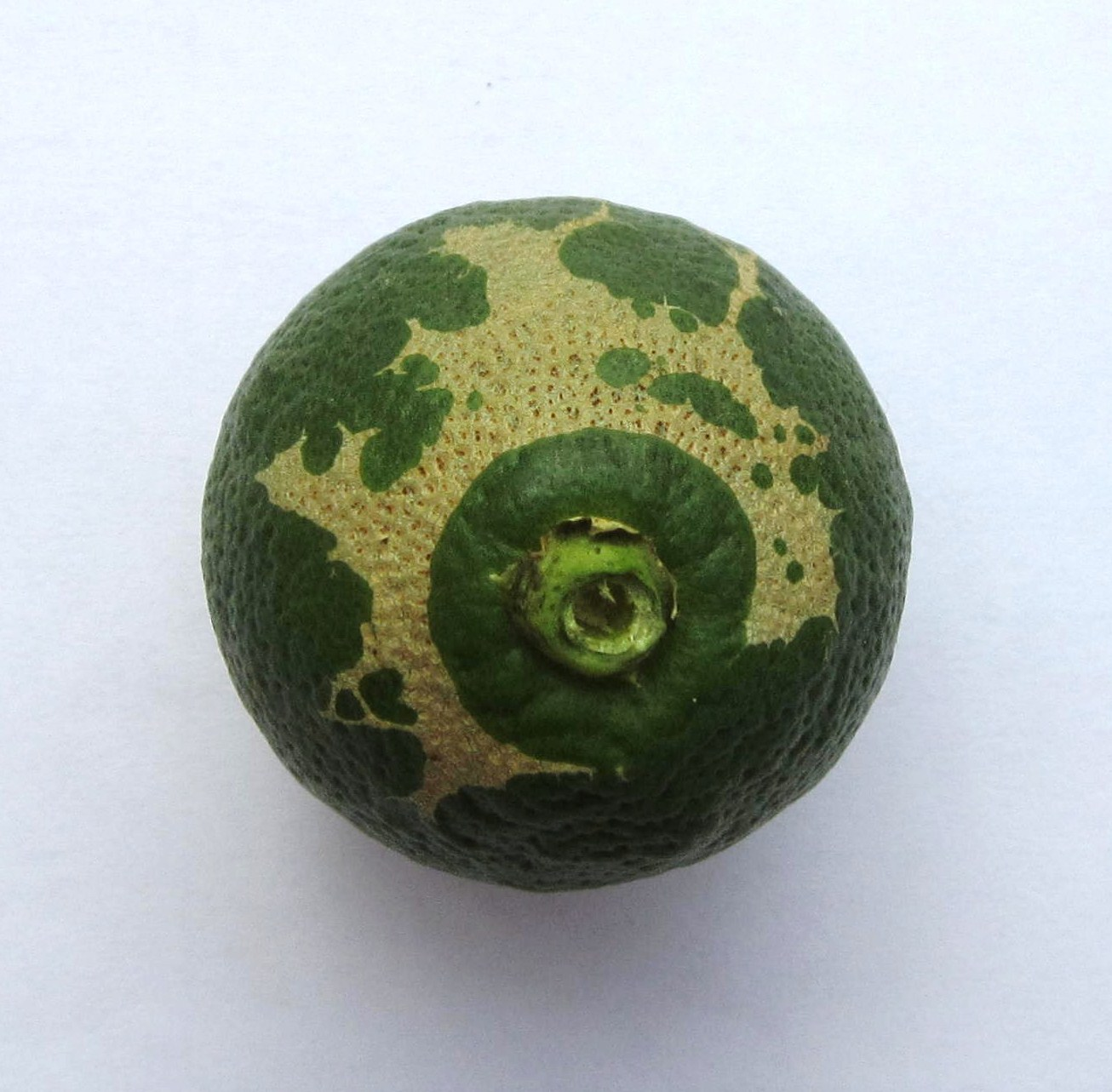 Damage caused by thrips in orange.